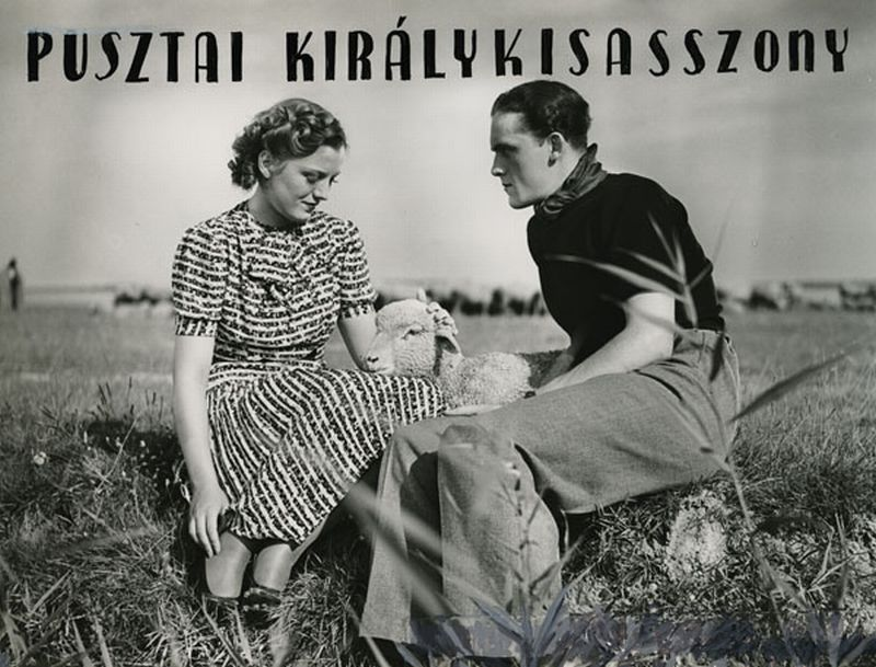 Scene from the Hungarian movie titled Pusztai királykisasszony (released in 1939)